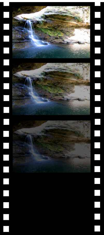 A part of a movie containing the "soft cut" called "fade out".